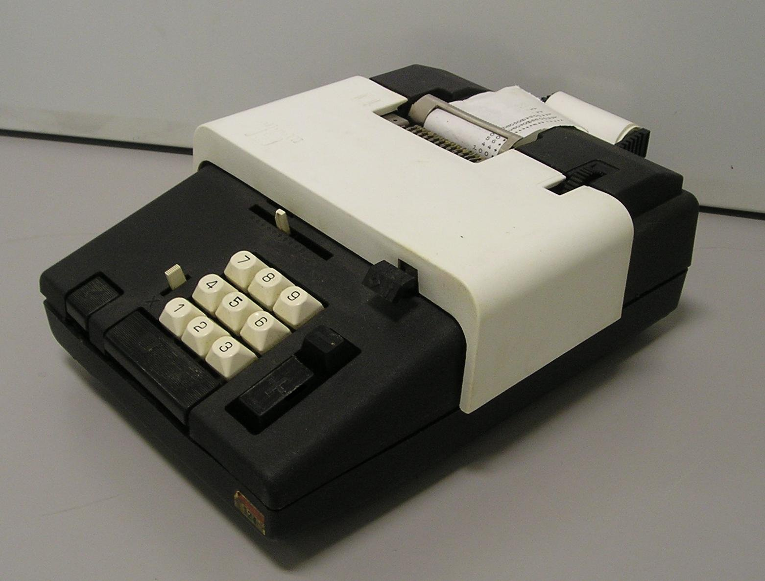 Olivetti Summa 19 adding machine. Design by Ettore Sottsass